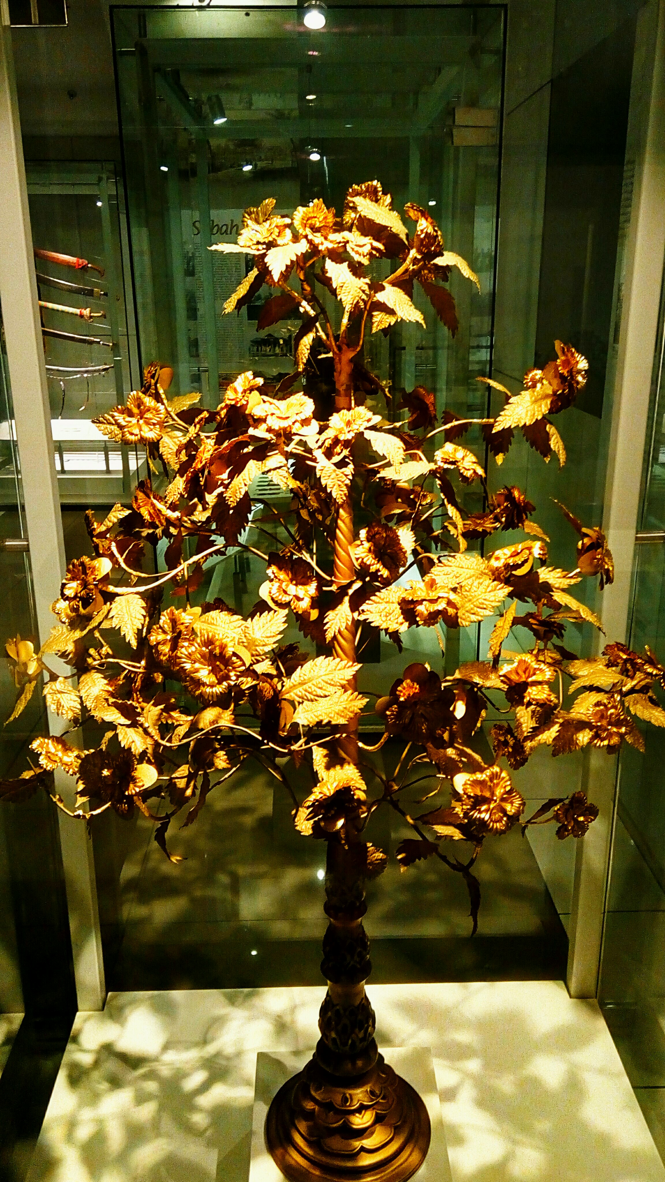 The Bunga Mas, National Museum of Malaysia.